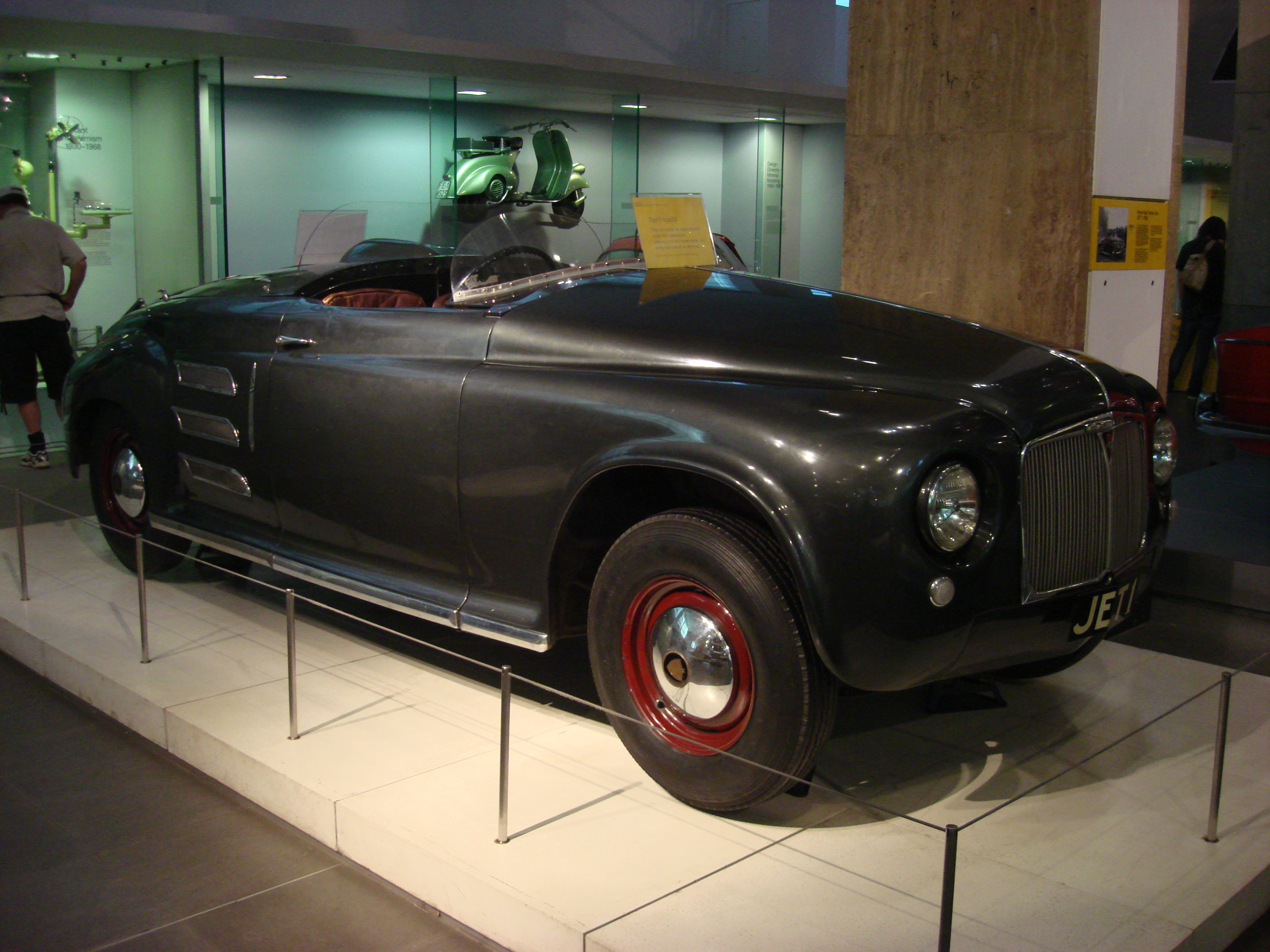 Rover Jet1 at the Science Museum (London)